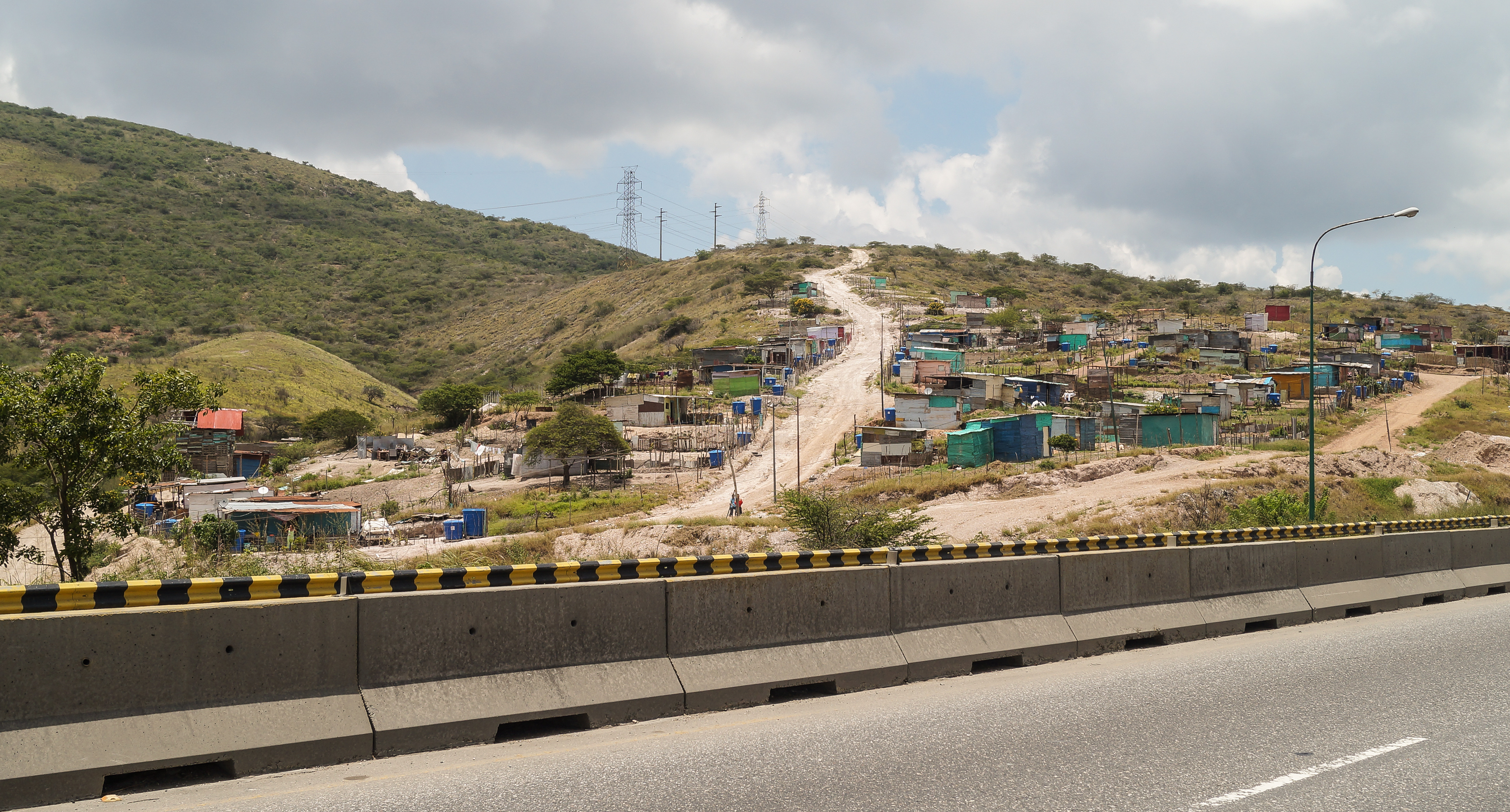 Shanty town on the out of the city of Barquisimeto. Lara. Venezuela